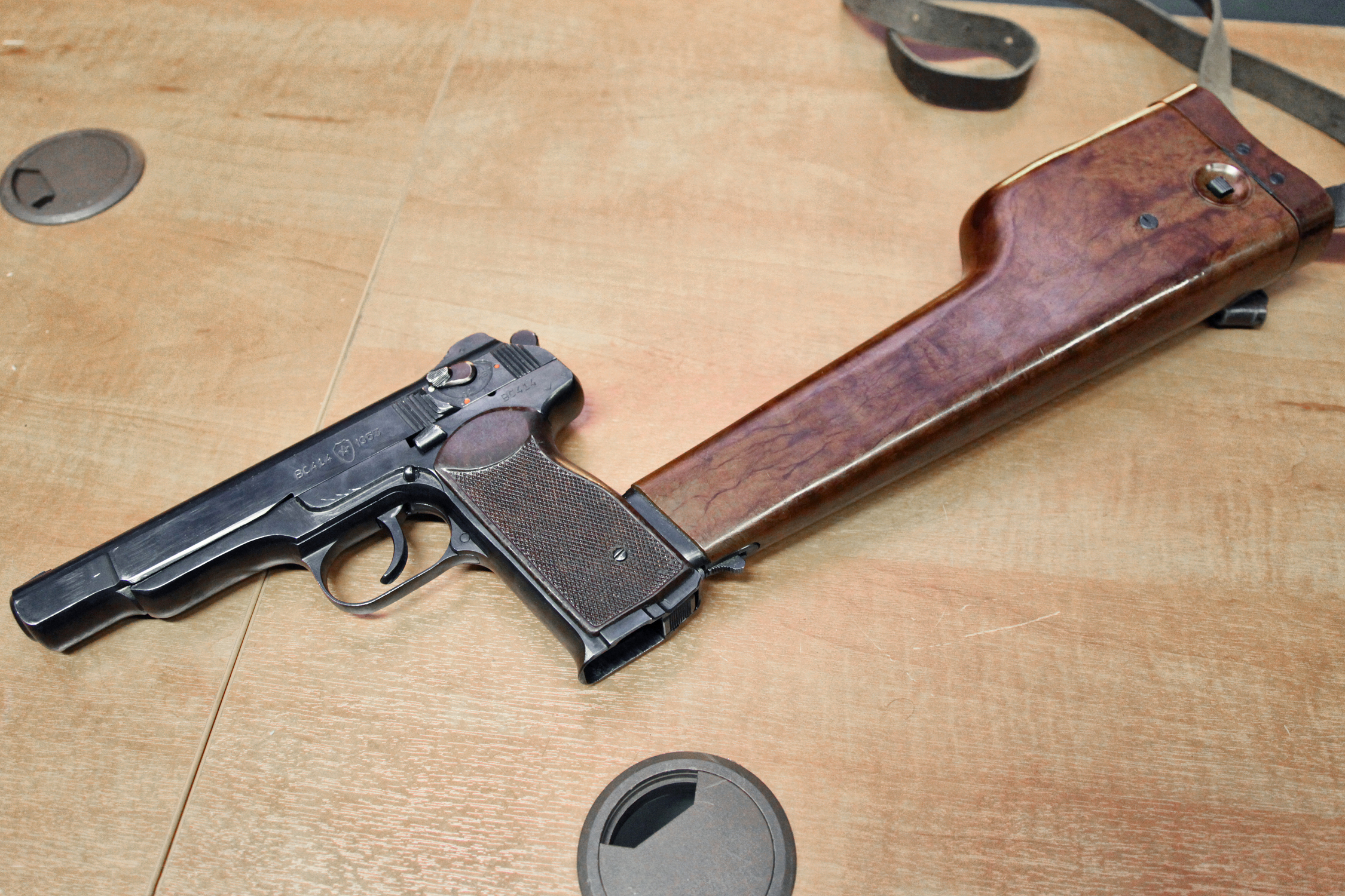 9mm Stechkin APS pistol